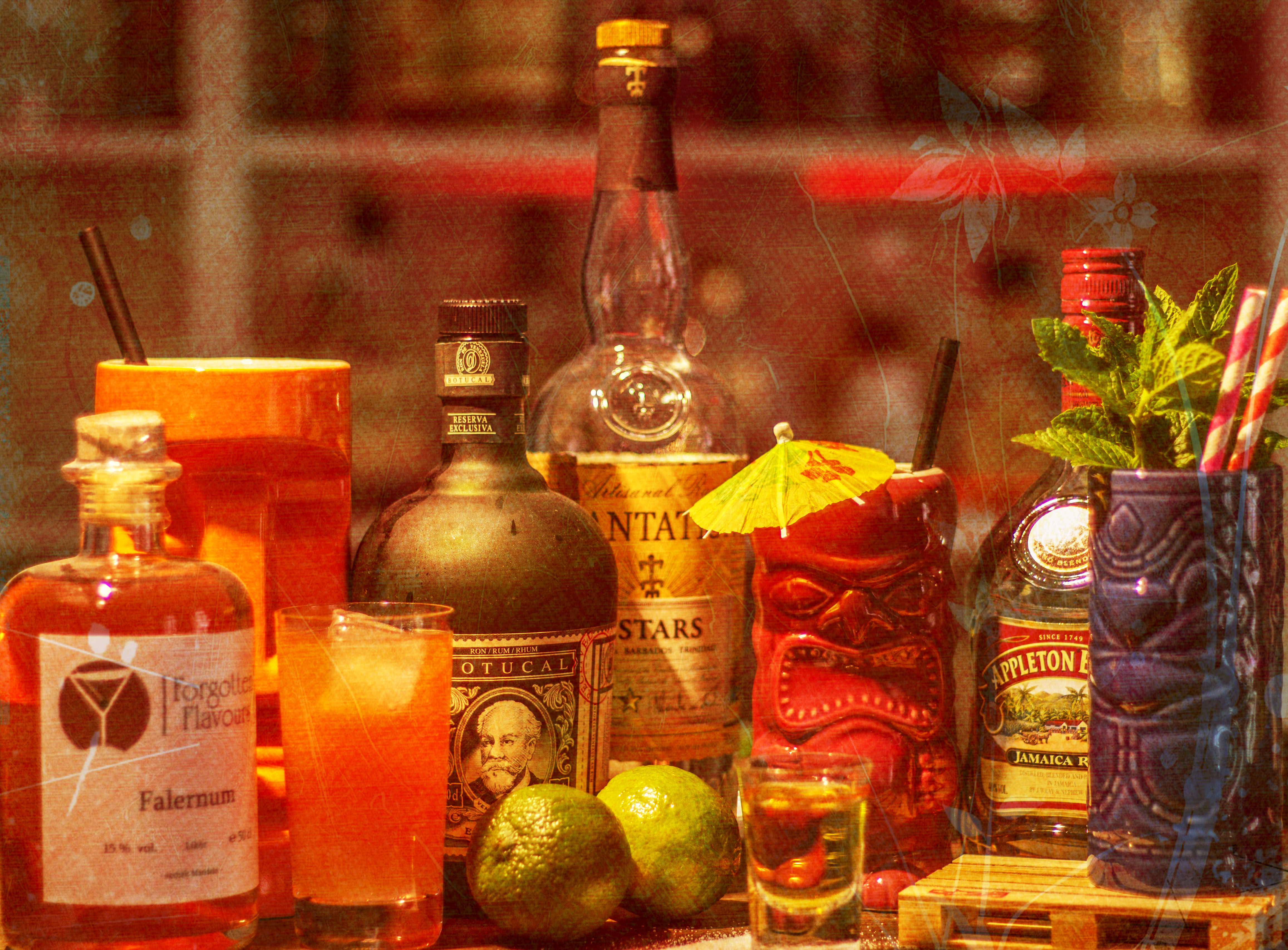 Tiki-Cocktails with various bottles of rum, falernum liqueur and tiki-mugs (graphics filter applied)